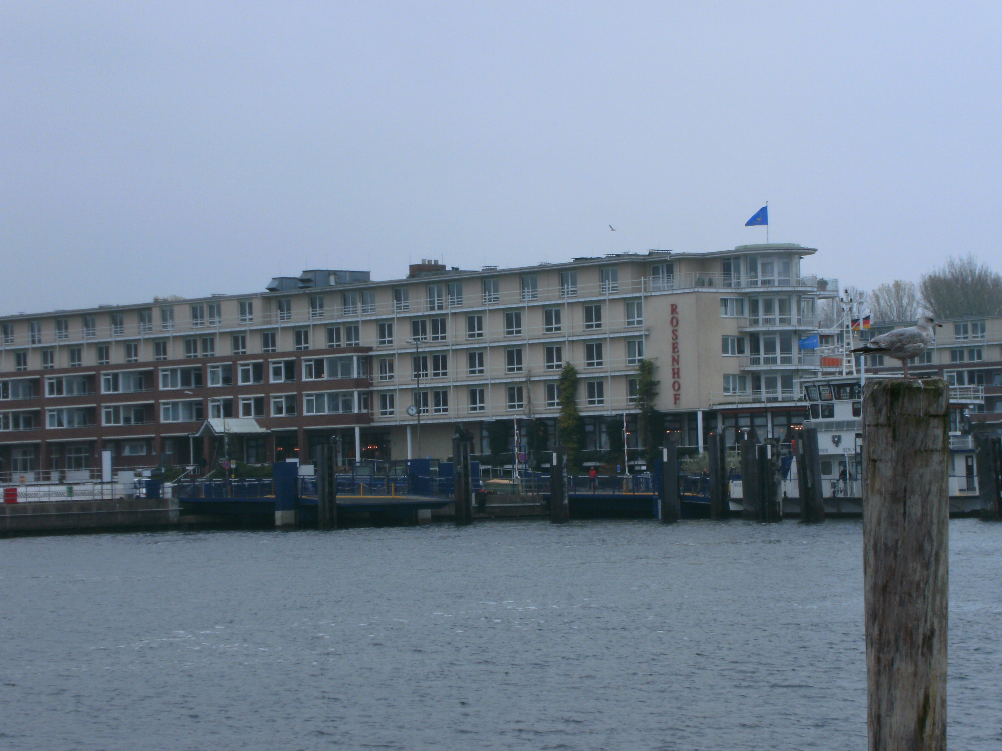 Rosenhof Travemünde is a home for senior citizens on Priwall in Travemünde. Seen from Travemünde.